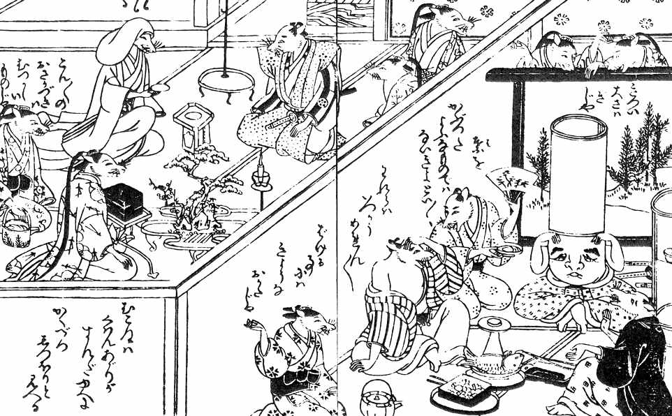 Kitsune no yomeiri (祝言狐のむこ入り, The Fox's Wedding)